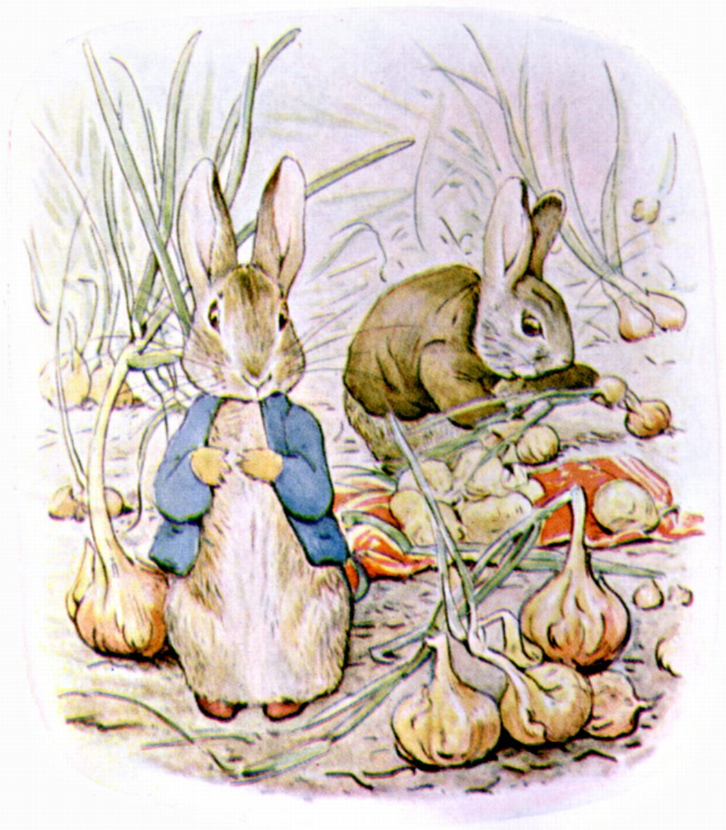 Illustration of Benjamin and Peter gathering onions, from The Tale of Benjamin Bunny